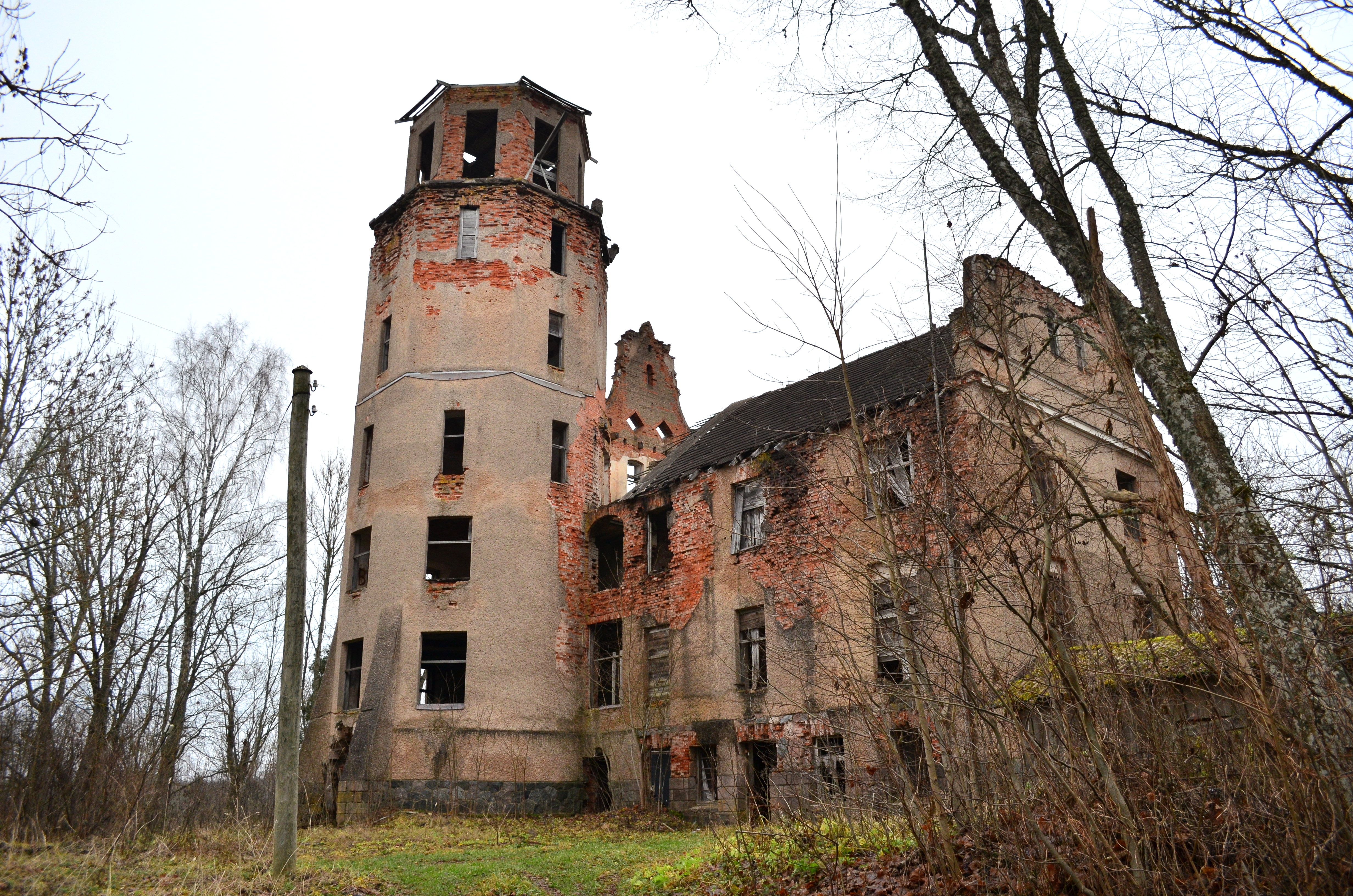 Alt-Karkel (Alexanderhof) manor